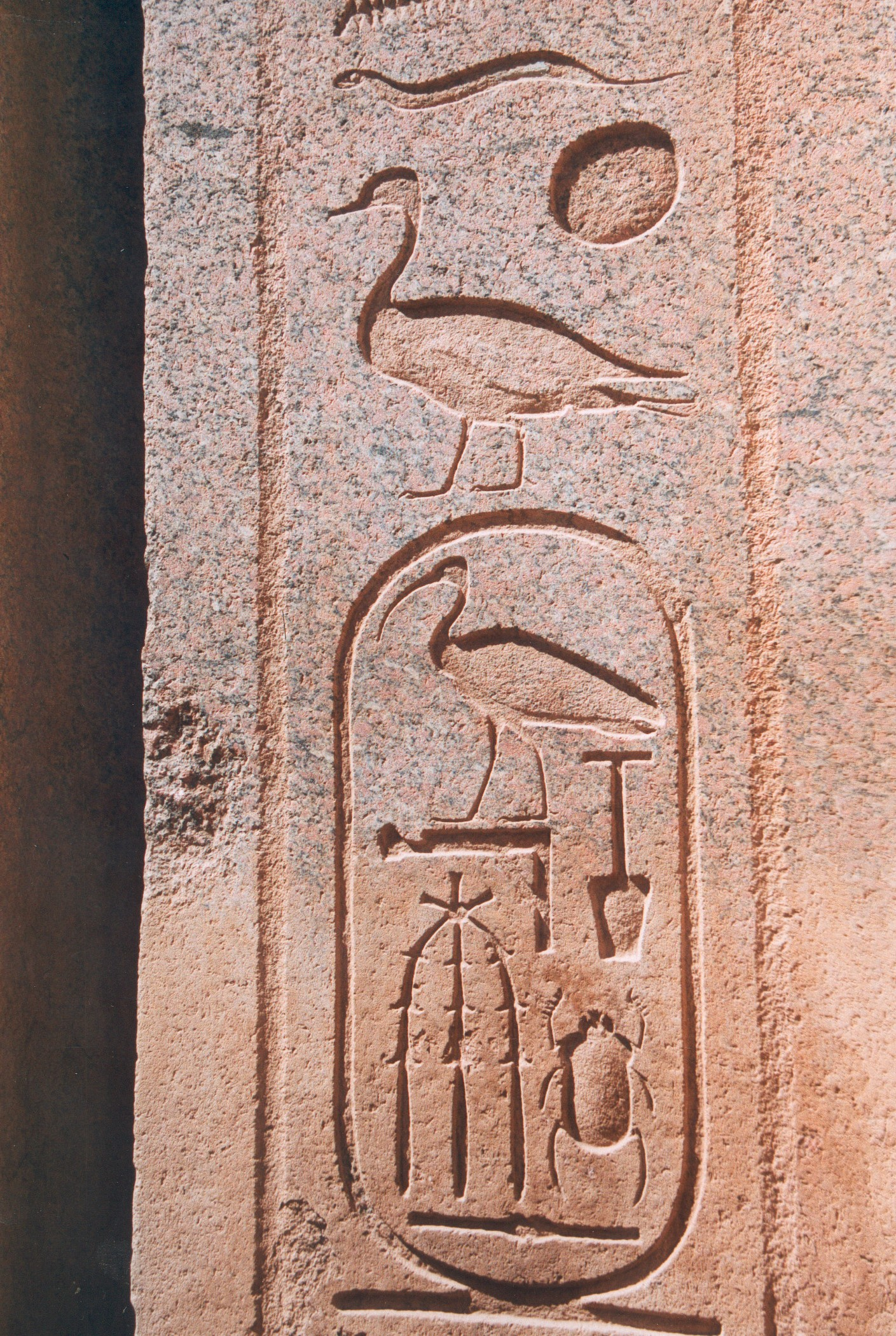 ancient egyptian cartouche of Thutmose III, Karnak, Egypt